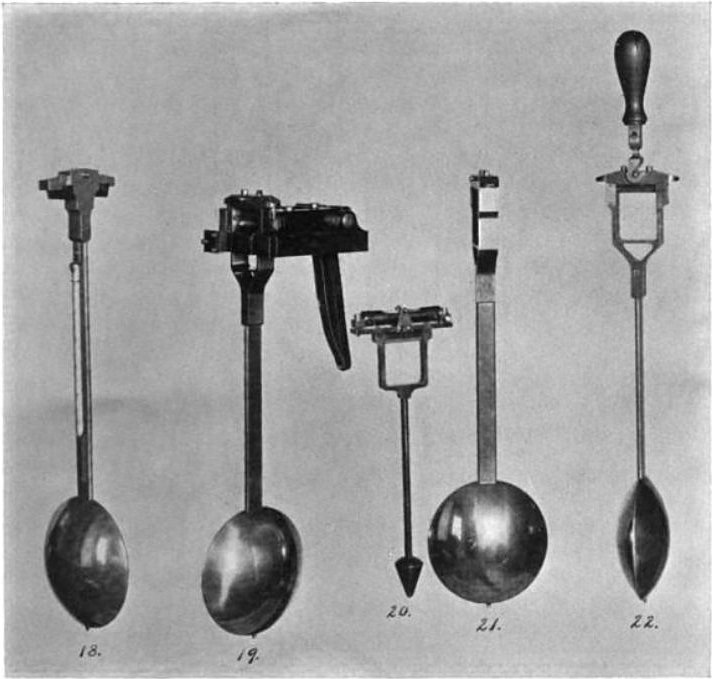 Pendulums used in Mendenhall gravimeter apparatus, from 1897 scientific journal. The portable Mendenhall apparatus, developed in 1890 by Thomas C. Mendenhall, provided the most accurate relative measurements of the local gravitational field of the Earth. The gravimeters were used at 340 "stations" in the US, and also in Germany, Holland, Java, the Philippine Islands, Cuba, Haiti, the Bahamas, the Dominican Republic, Panama, Canada, and Mexico. The swing of the pendulum was more regular than the most accurate clocks of the era, and as the "world's best clock" it was used in the 1920s by A. A. Michaelson to time his measurements of the speed of light at Mt. Wilson, CA. The pendulums are made of a copper-aluminum alloy, weighing 1200 g, 24.8 cm long from the agate suspension surface to center of bob. In use they were suspended from an agate knife edge in a vacuum tank. The period was picked off by reflecting a light beam from a small mirror at the top of the pendulum. The lines in the image are aliasing artifacts from scanning the original halftone image. Captions: 18.Dummy temperature pendulum with integral thermometer, 19.Pendulum and knife-edge plate, showing mode of suspension, 20.Leveling pendulum, 21.Half-second pendulum, front view, 22.Half-second pendulum, side view.